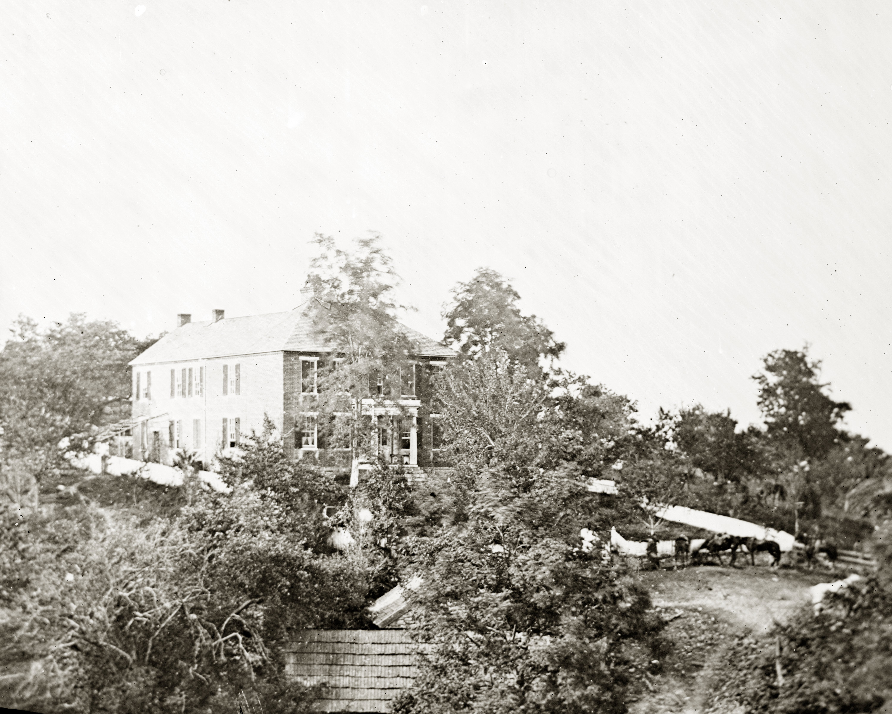 Phillip Pry's prosperous farm and home near Sharpsburg, Maryland; the house was taken over by Union commander General George McClellan to use as his headquarters during the Battle of Antietam.